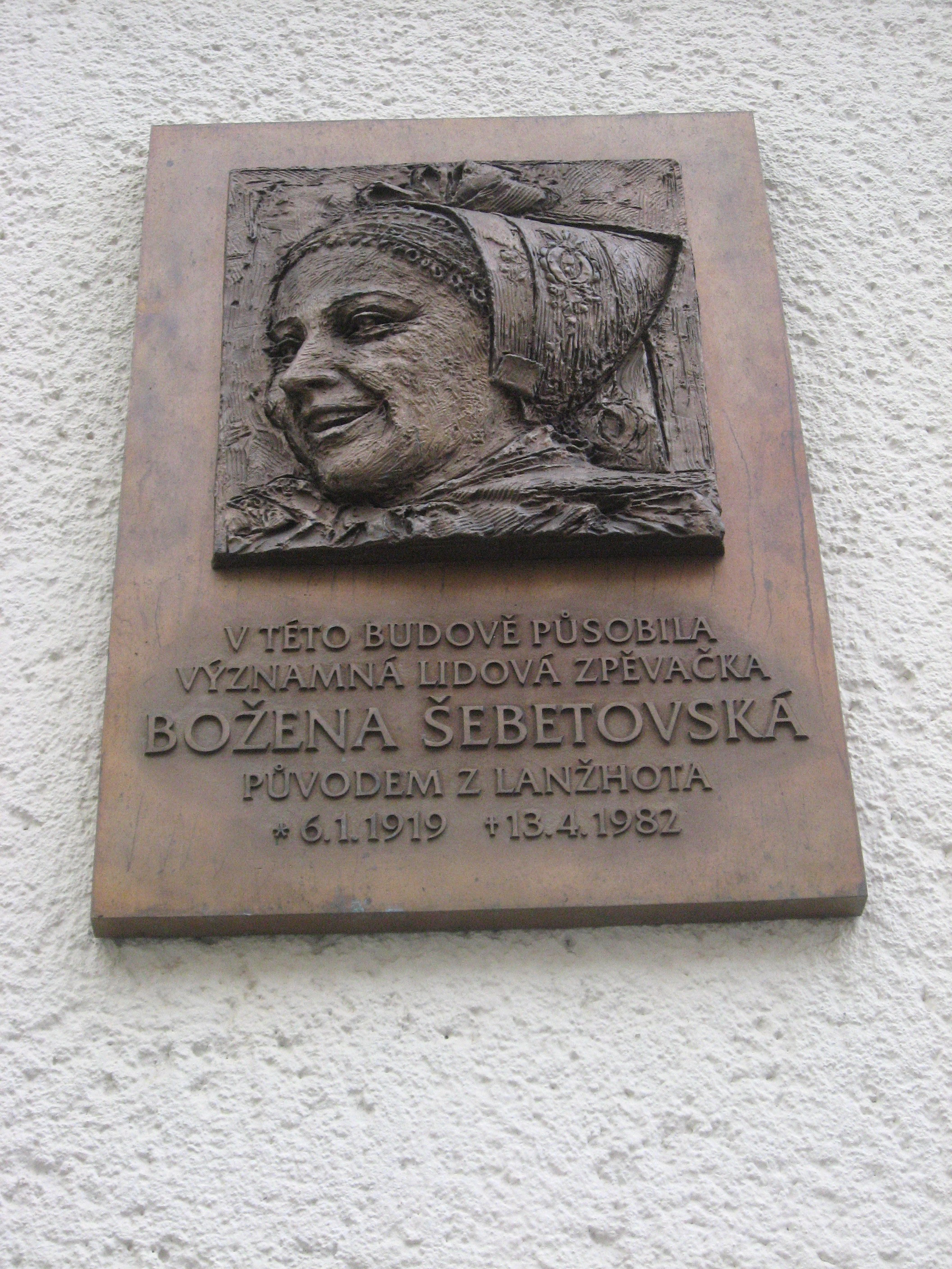 Memorial plaque of Božena Šebetovská, Brno, Czech Republic